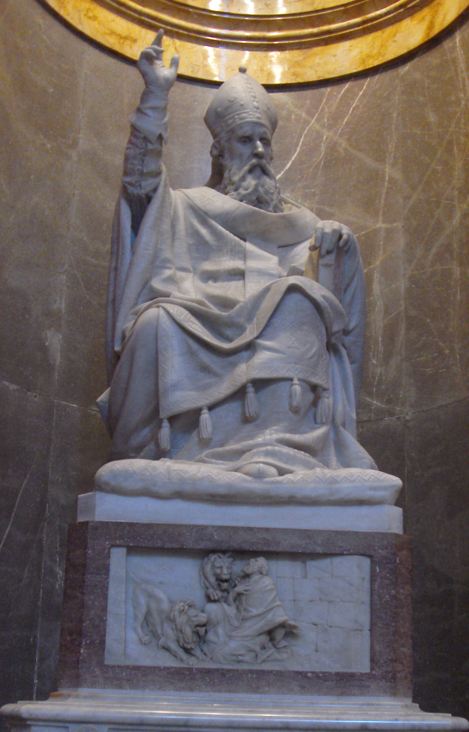 The Maltese Saint Publius